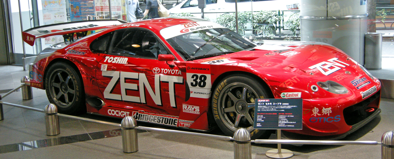 2005 Super GT Zent Cerumo Supra photographed in aMLUX (Toshima, Tokyo)